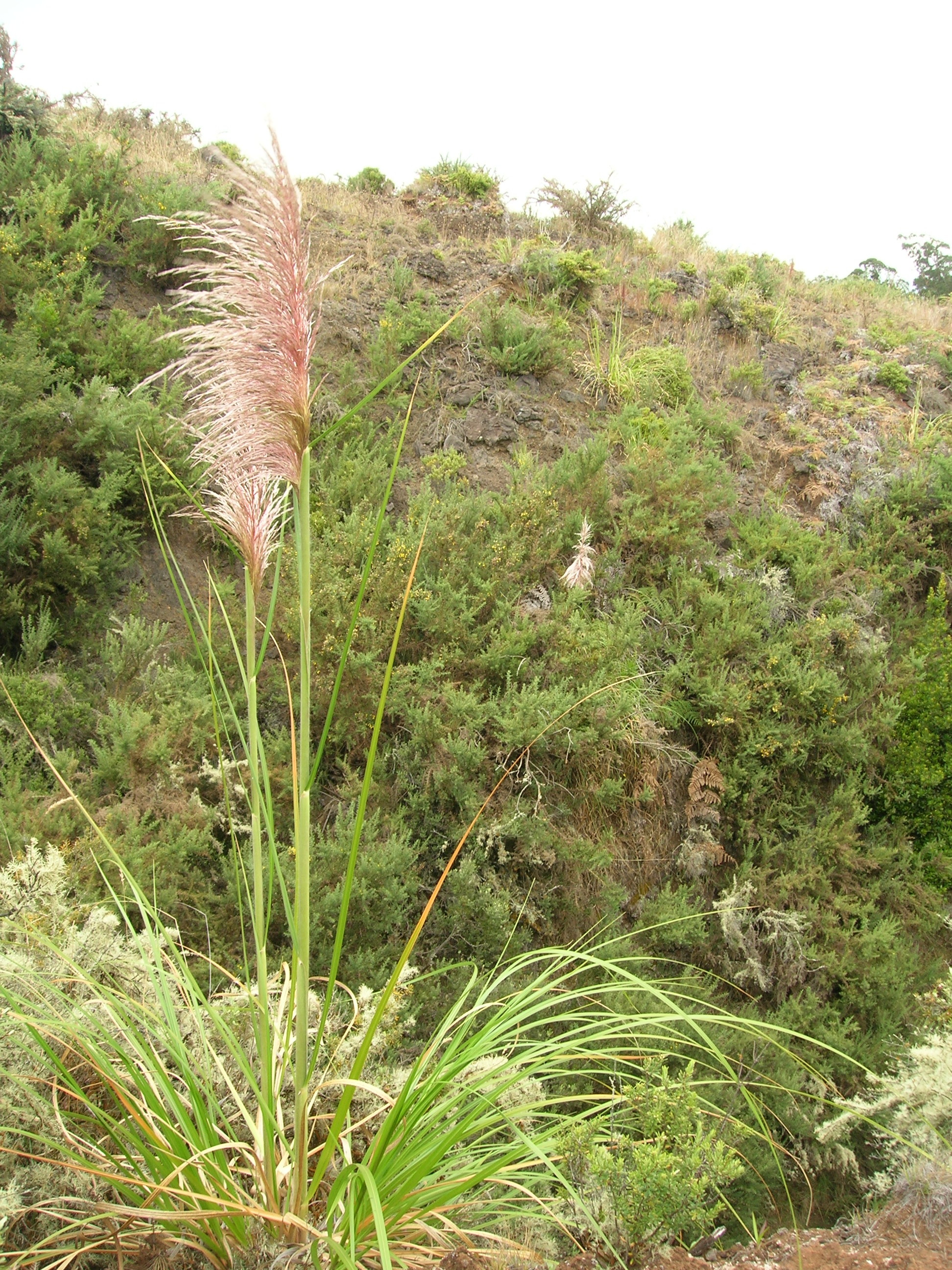 Cortaderia jubata (plumes). Location: Maui, Waiale Gulch